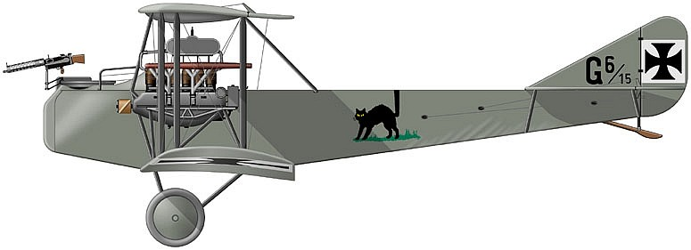 German aircraft bomber from World War One